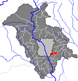 This map shows the area of the Gemeinde (municipality) Raaba in the Bezirk (district) Graz-Umgebung, Styria, Austria.